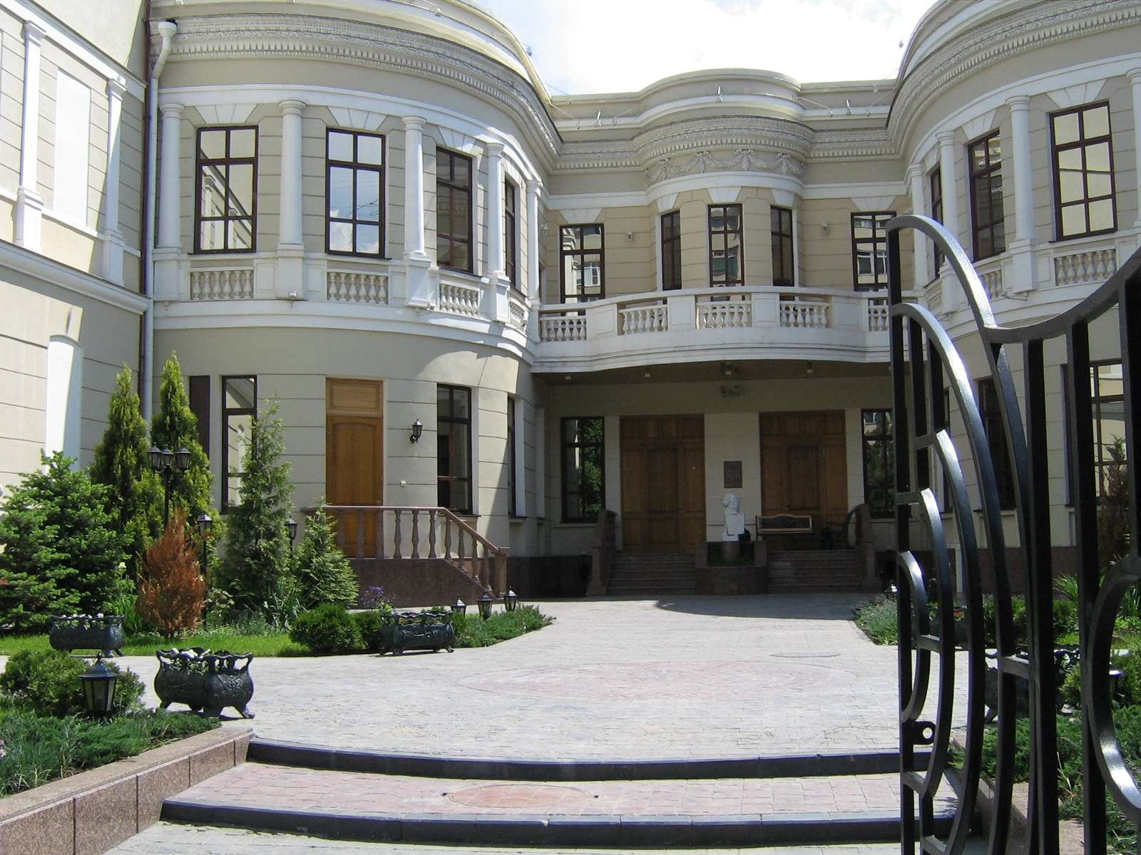 Author:Vlad2000Plus Street Pushkin, Restaurant «Assembly» (Rostov-on-Don)